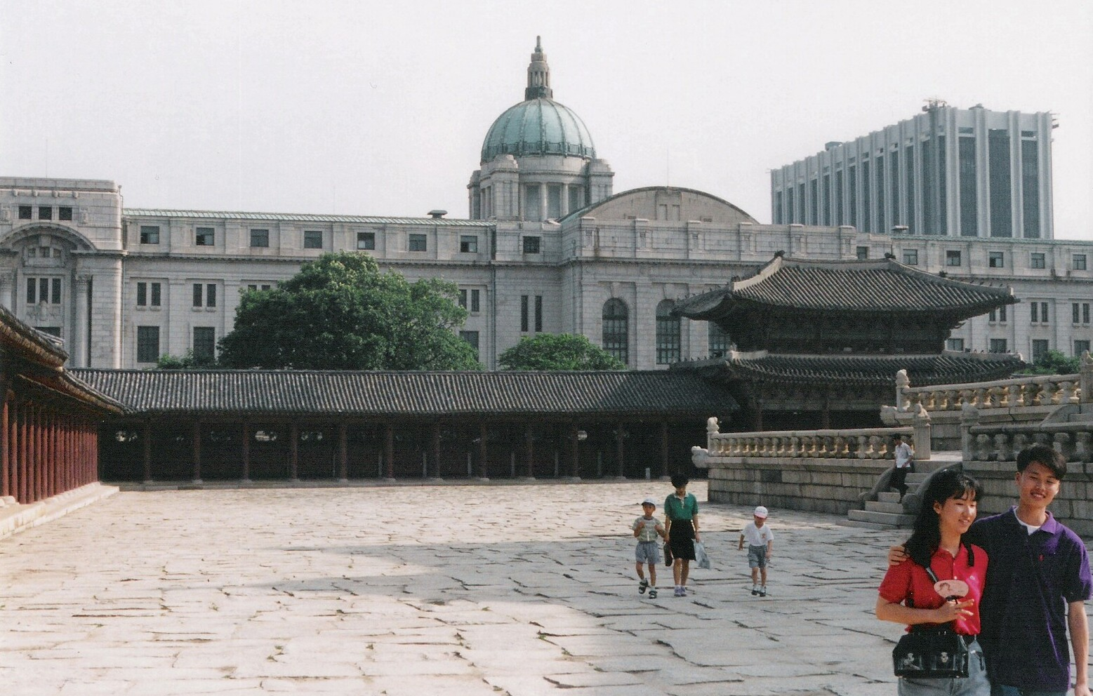 The Japanese General Government Building, Seoul, seen from the grounds of Gyeongbokgung, looking south towards the city. This picture was taken in the summer of 1995, shortly before the building's demolition began, when it still housed the National Museum of Korea.